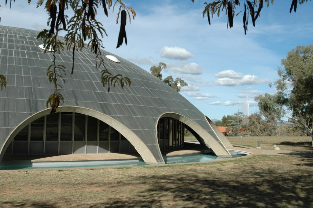 The Shine Dome of the Australian Academy of Science, Canberra.